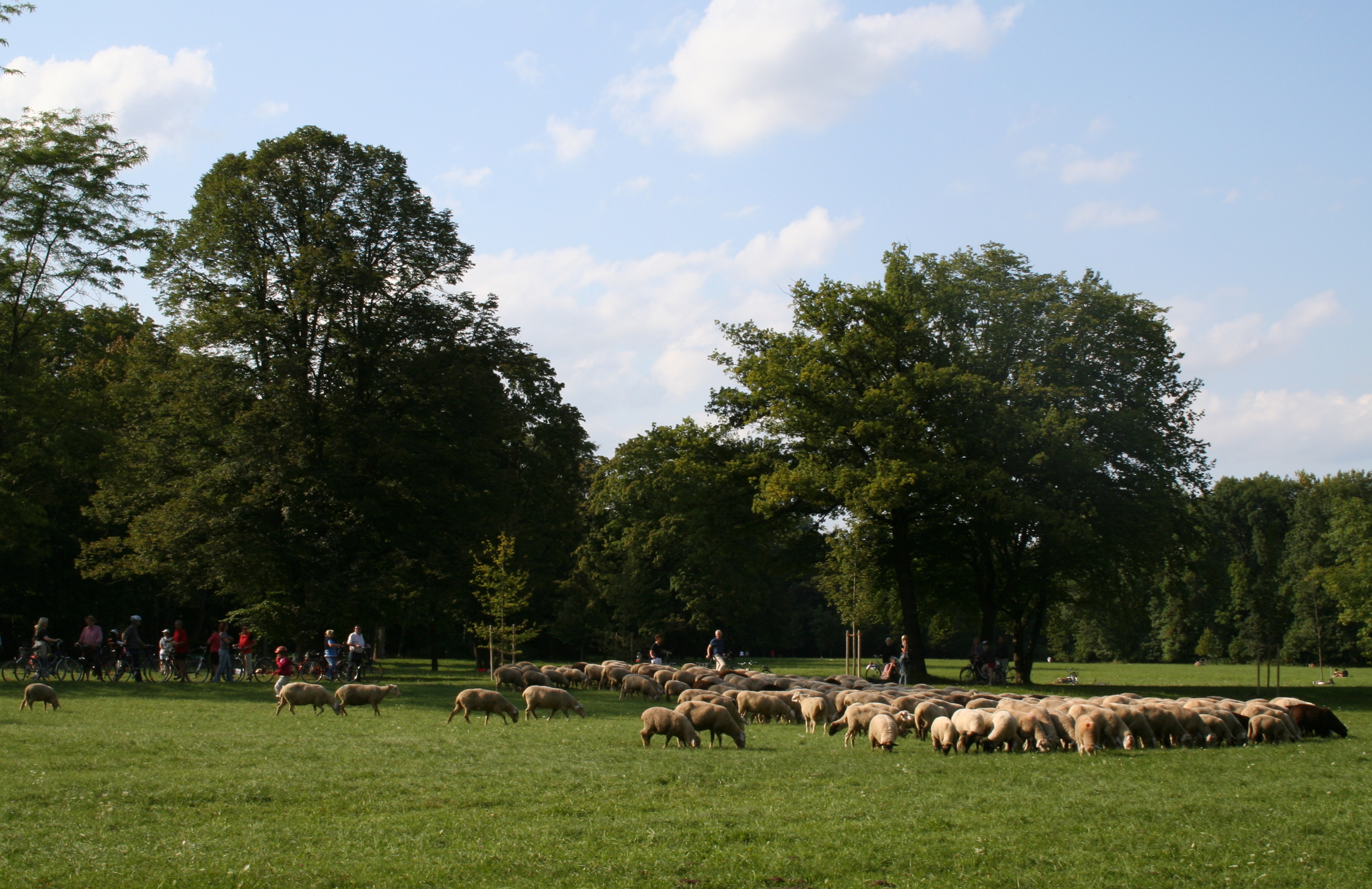 A flock of sheep in the northern part of the English Garden, Munich